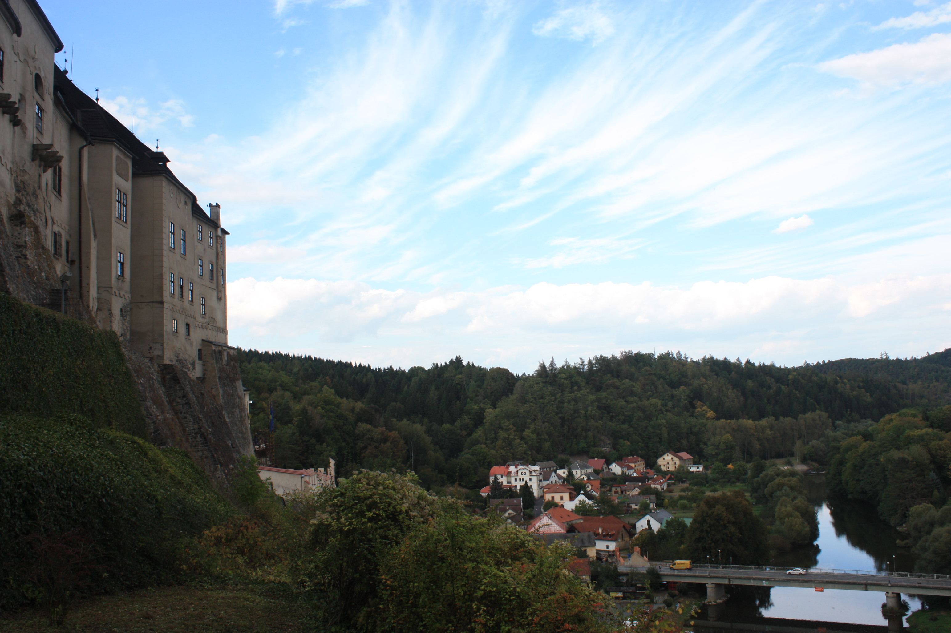 Sternberk Castle overlooking the River Sazava and the village to the east